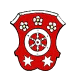 Coat of Arms of Mömlingen